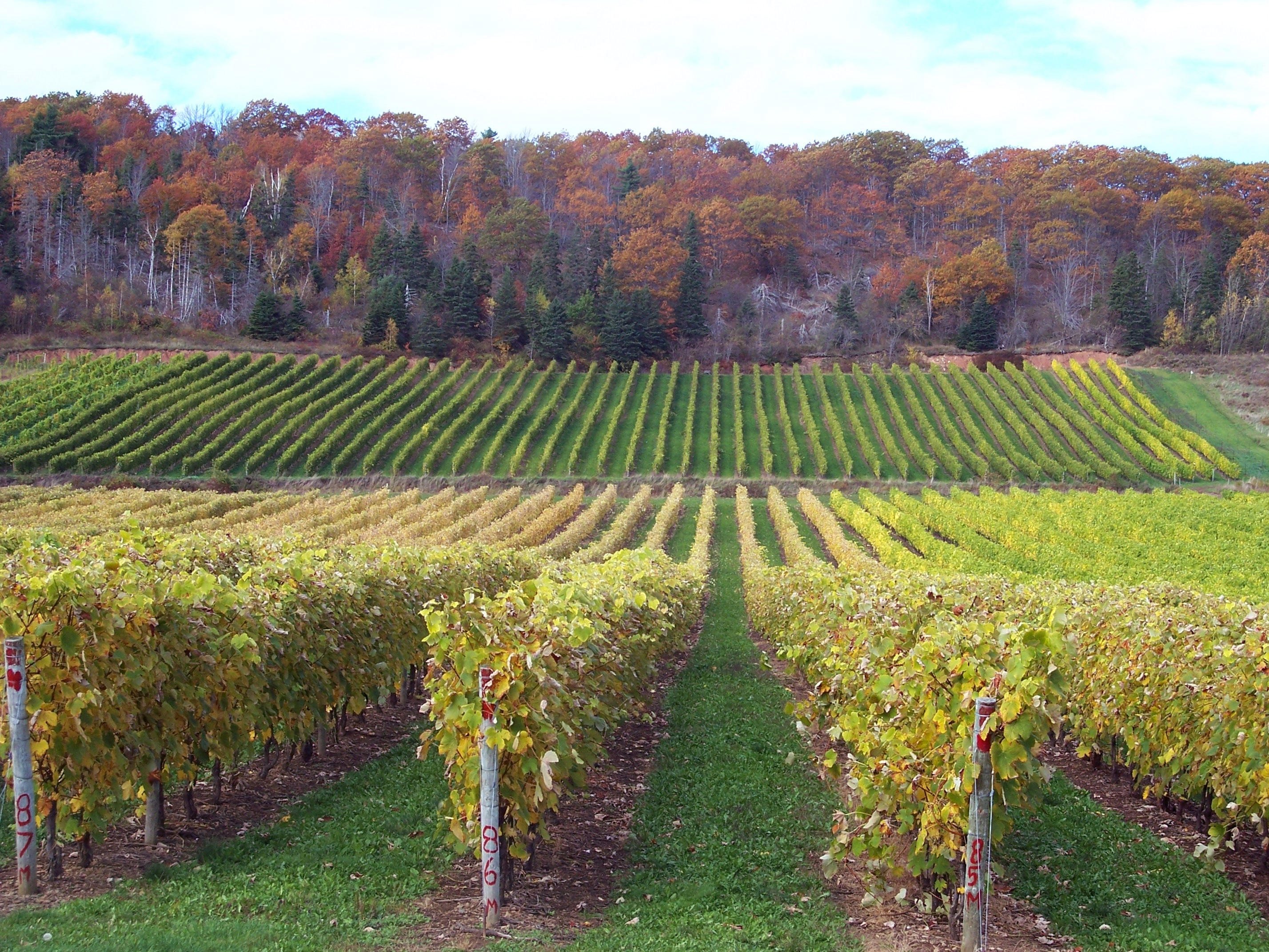 Vineyard in the Canadian wine region of Nova Scotia